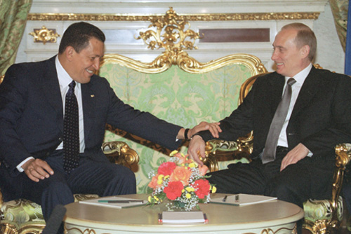 THE GRAND KREMLIN PALACE, MOSCOW. President Vladimir Putin with Hugo Chavez, President of Venezuela.